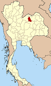 Map of Thailand highlighting Nongbua Lamphu province